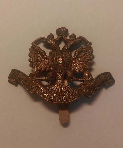 Photo of 1st King's Dragoon Guards from personal collection